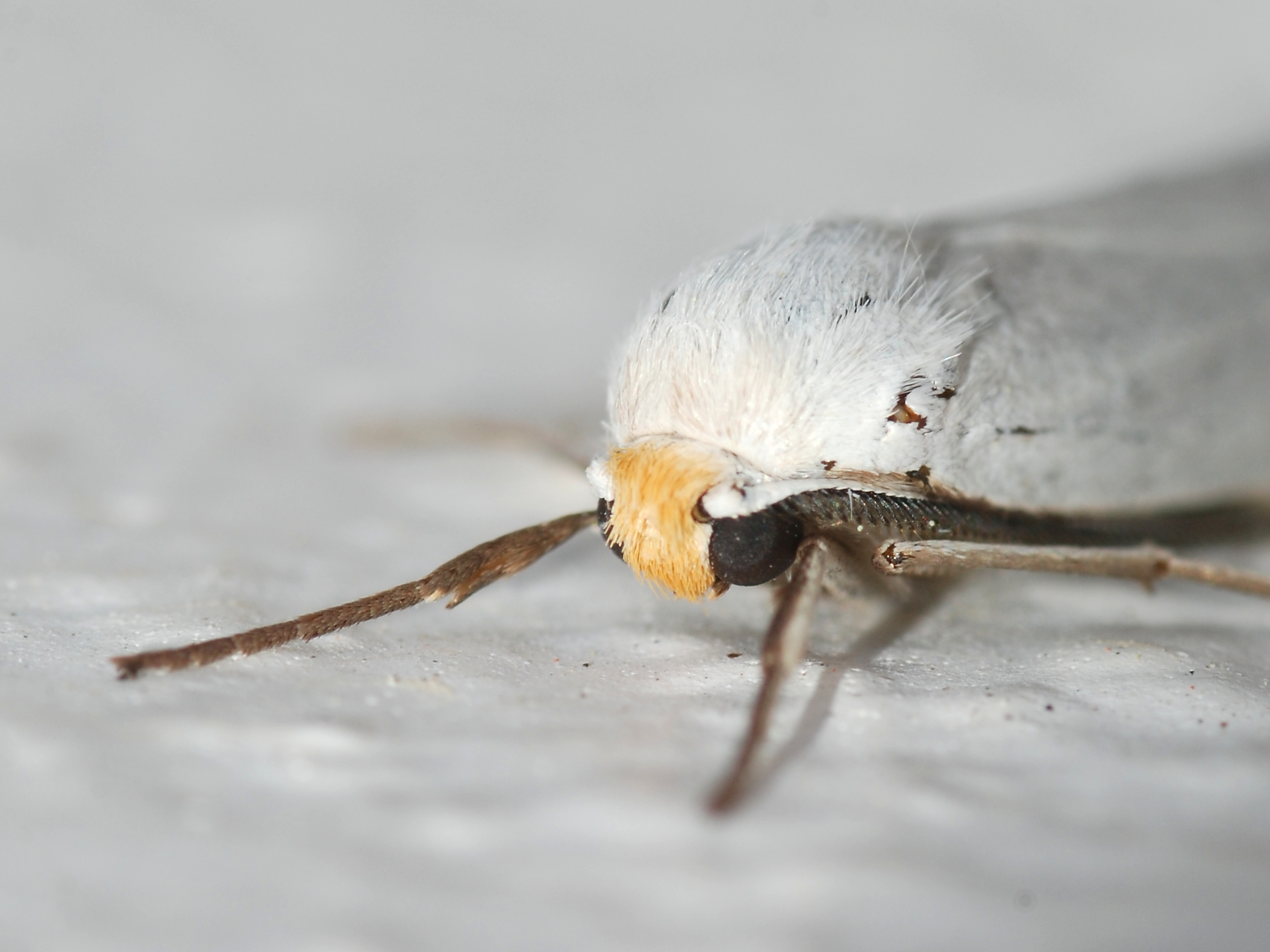 detail of a male Footman, a moth of the Arctiidae family